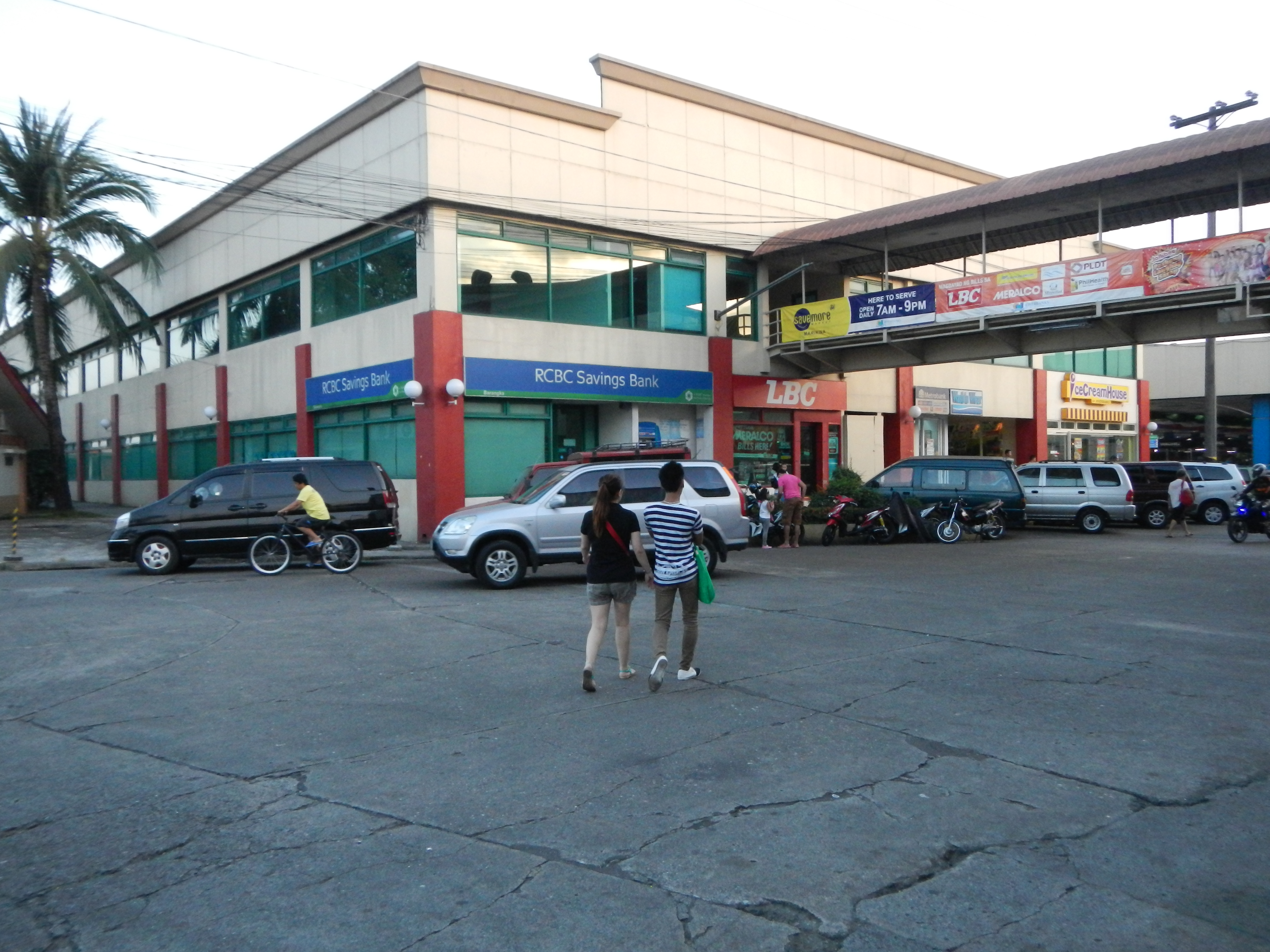 Upload Wizard photos of Marikina City [1] - )Barangay Barangaka, Marikina City, Hall [2] Complex, School and Centre of Commerce and Riverbank Center Mall[3]